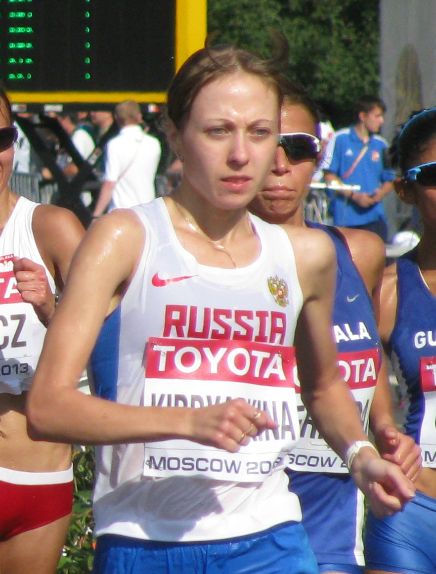 Anisya Kirdyapkina in action during Women's 20 kilometres walk at the 2013 World Championships in Athletics